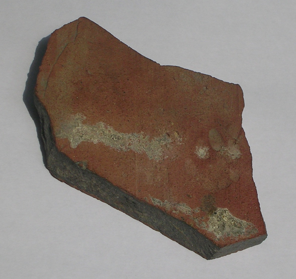 Fragment of Roman roof tile found by me c.1987 while on a dig in York, UK, showing a kitten's paw print. Fragment was kept by permission of dig organisers (York Archaeological Trust). As orientated in the image, the fragment measures 78mm wide by 97mm high, and is 13mm thick overall.